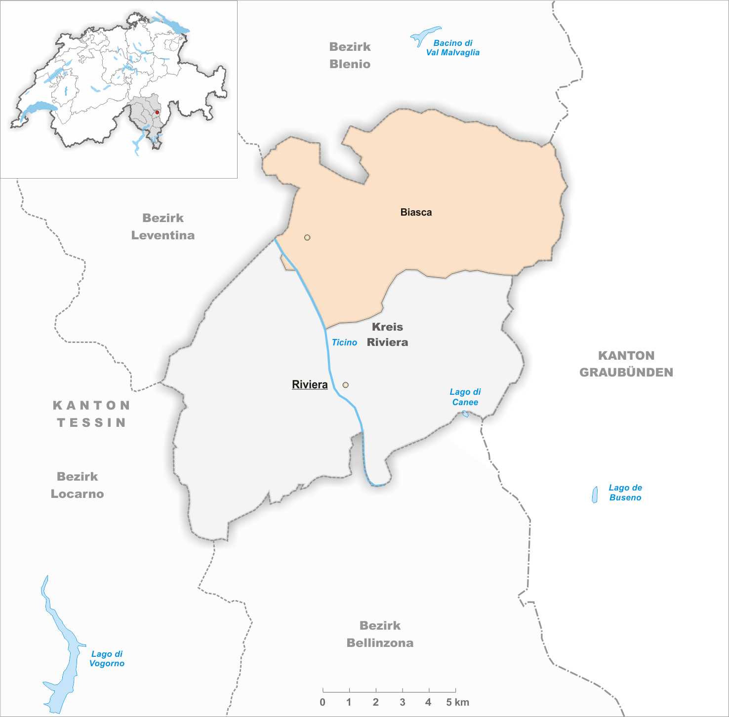 Municipality Biasca